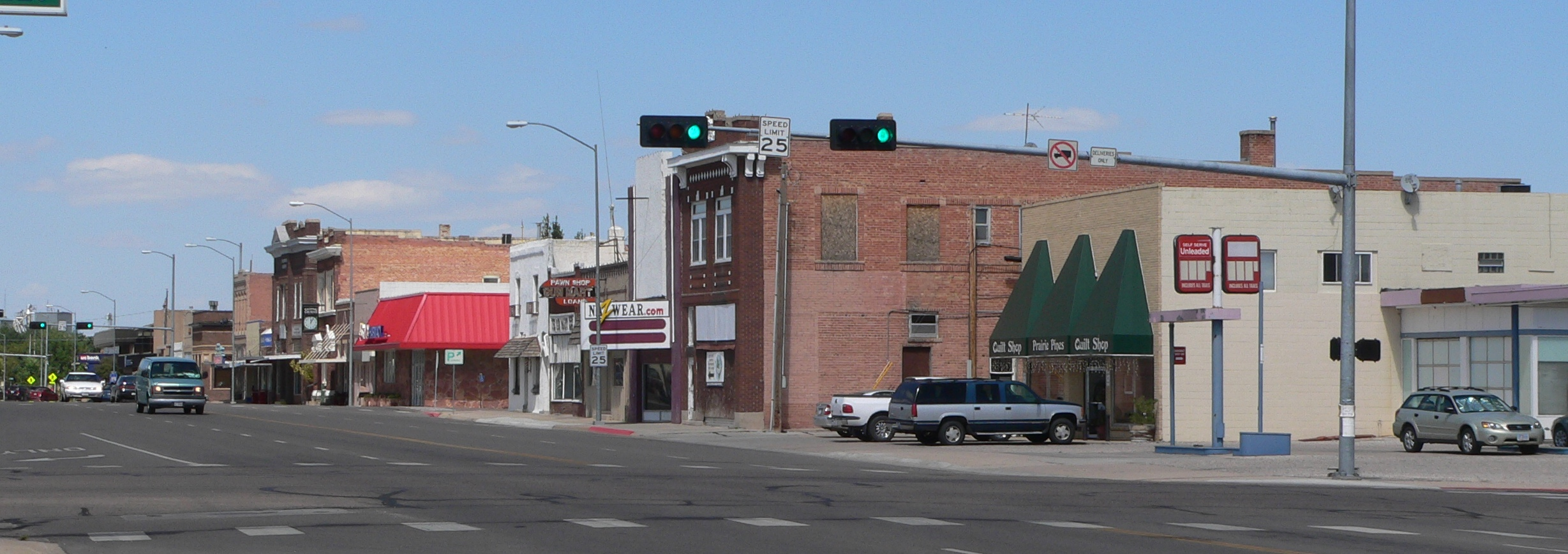 Gering, Nebraska: east side of 10th Street, looking northeast from about M Street.